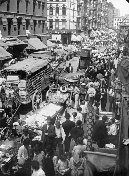 Hester Street in 1903.